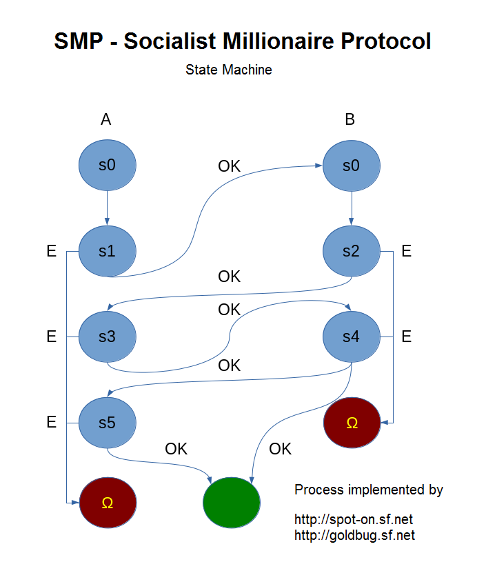 State Machine Process for the Socialist Millionaire Protocol (SMP) implemented by Instant Messenger ( and Spot-On Applikation (